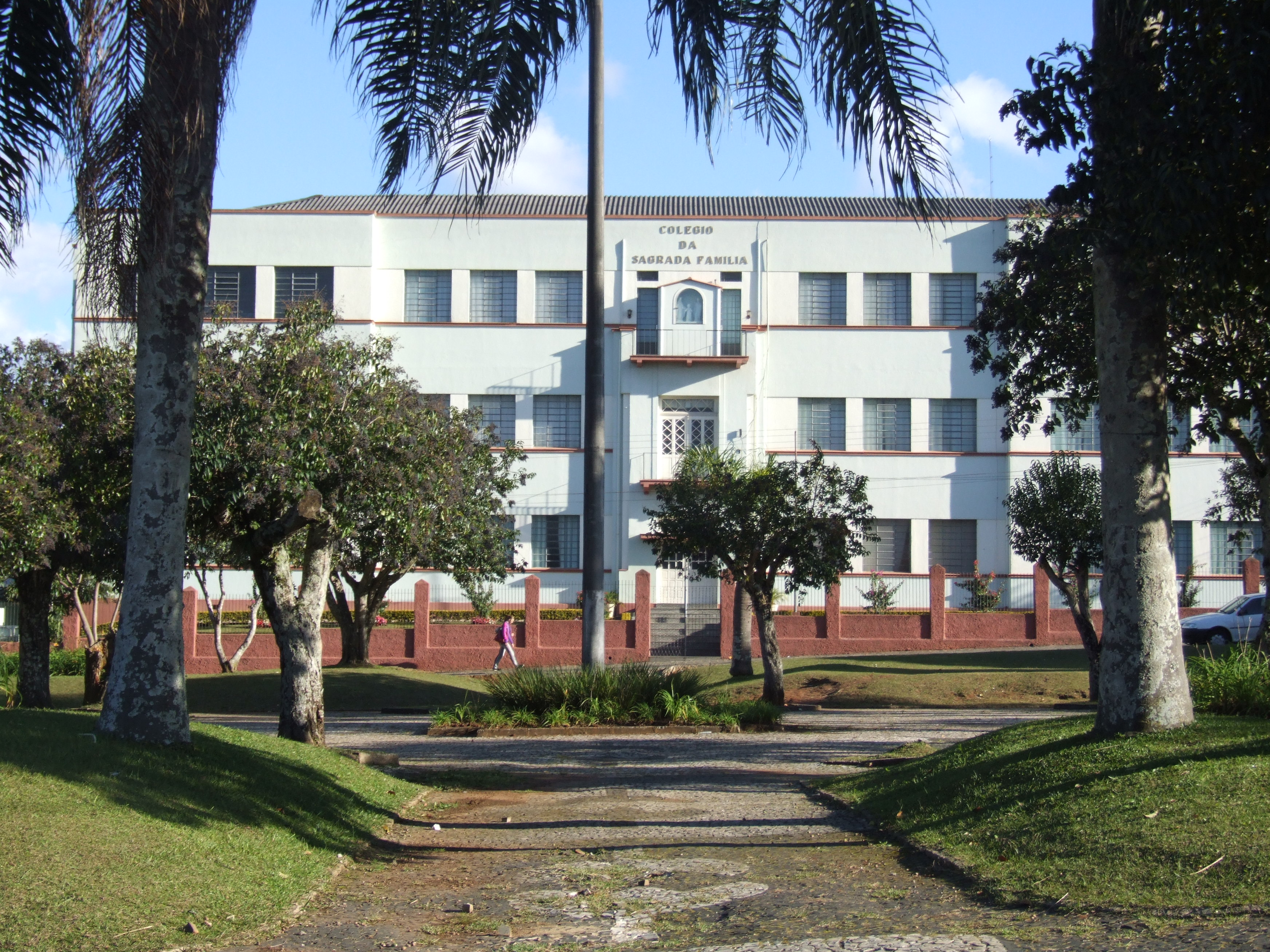 College of the Sacred Famíly in Campo Largo, Paraná, Brazil.